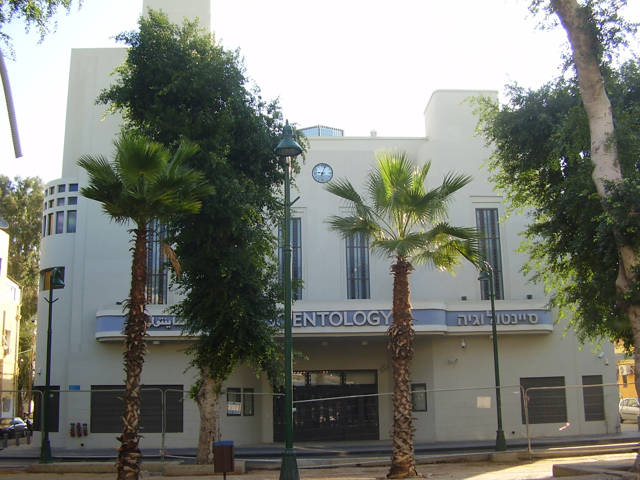 former alhambra cinema in jaffa